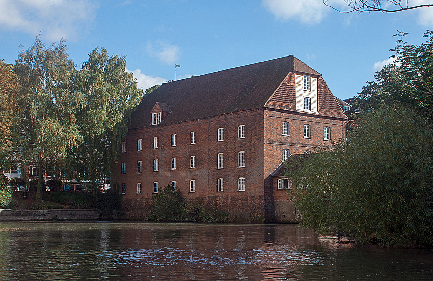 The Town Mill at Guildford. The modern turbine is in the small extension to the right of the main building.